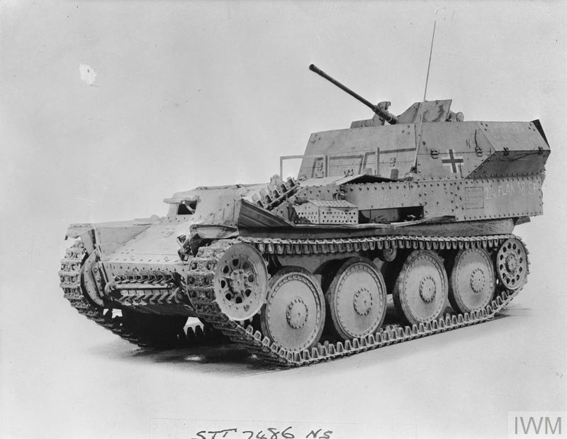 Flakpanzer 38(t) (Frontal view)